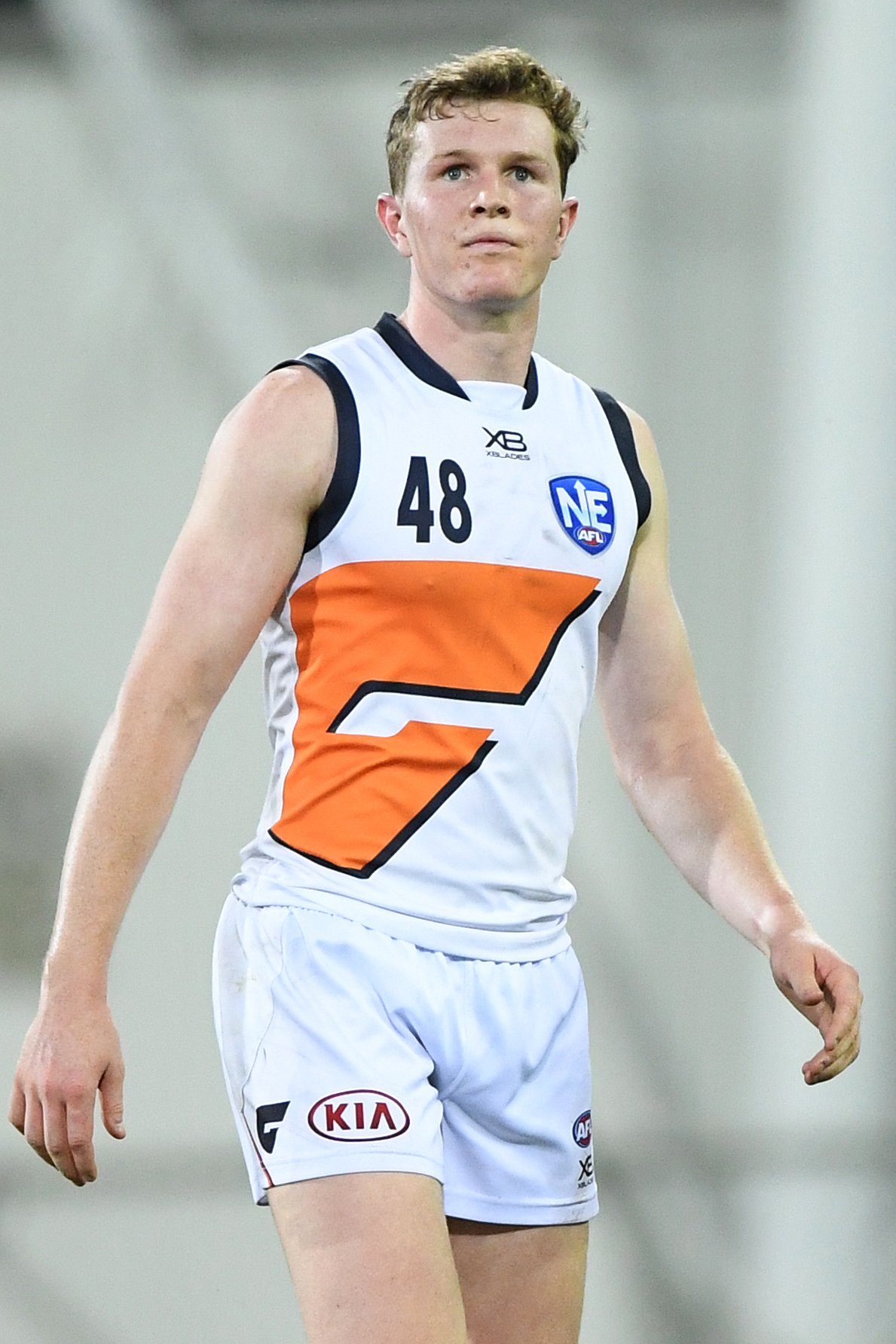 Tom Green of Greater Western Sydney during the 2019 NEAFL round 15 match between NT Thunder and Greater Western Sydney at TIO Stadium on Saturday, 13 July 2019 in Darwin, Australia.